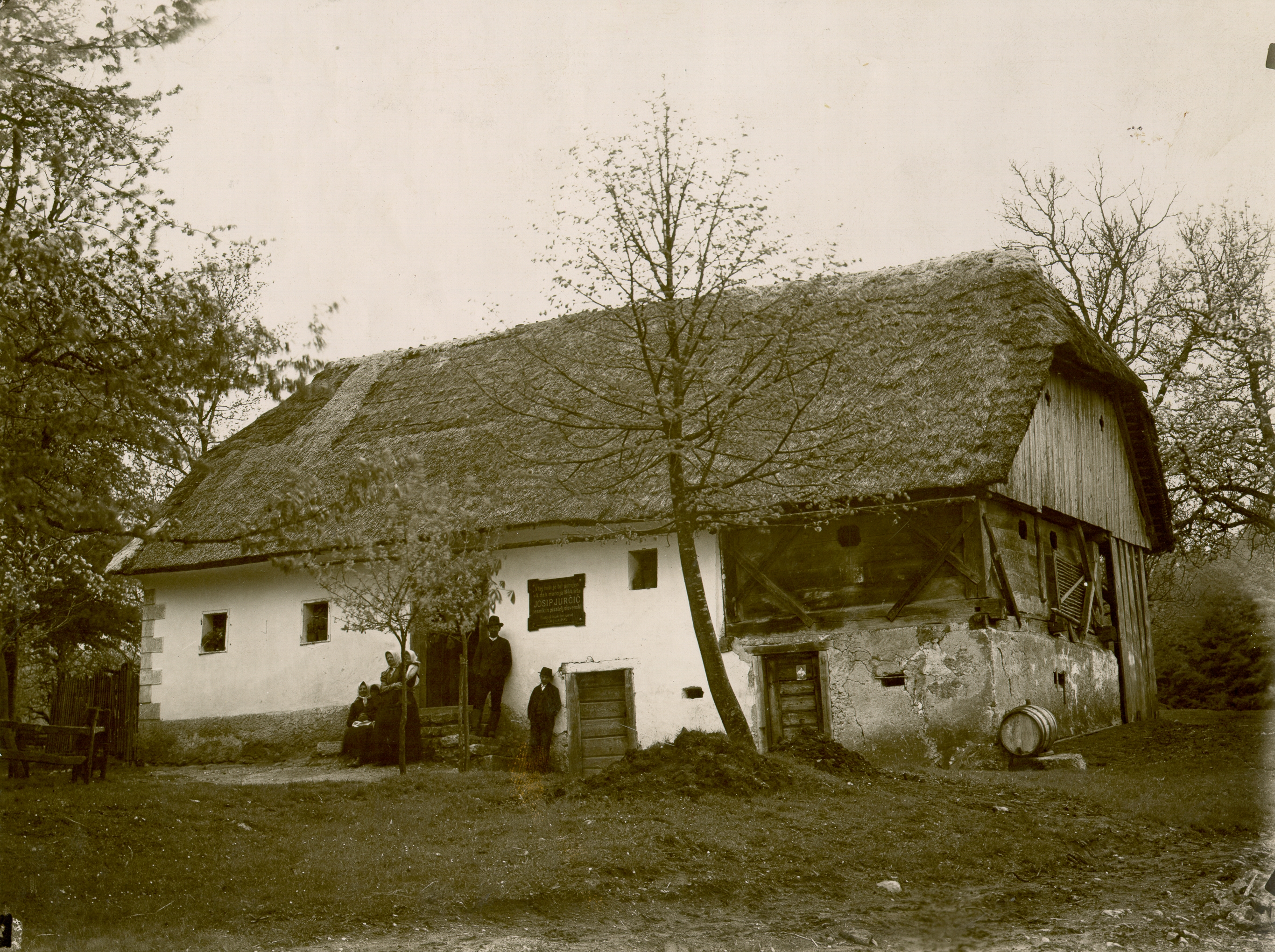 Birth house of Josip Jurčič